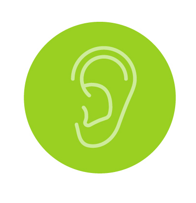 Human ear icon